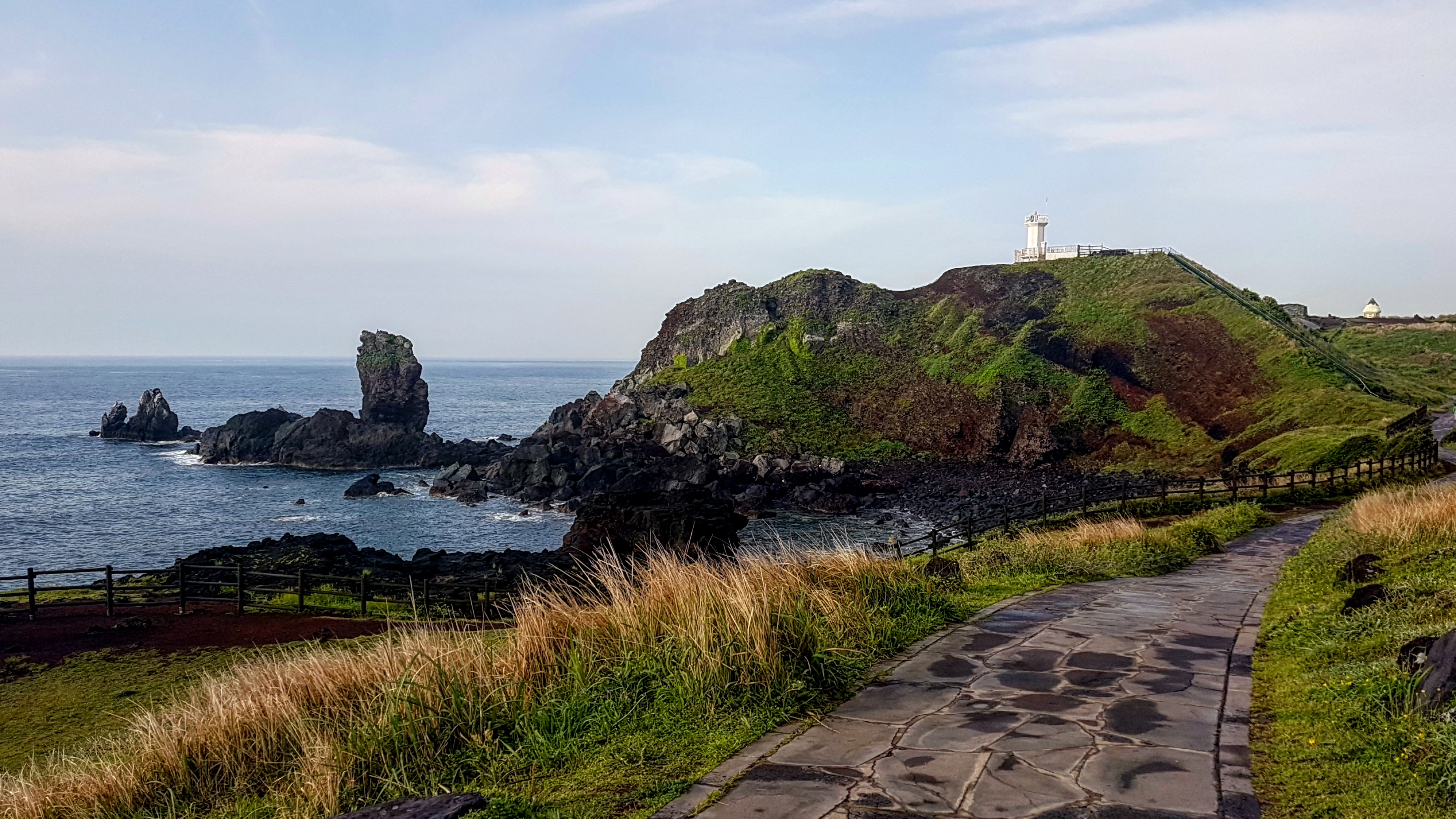 Seopjikoji, Jeju Island